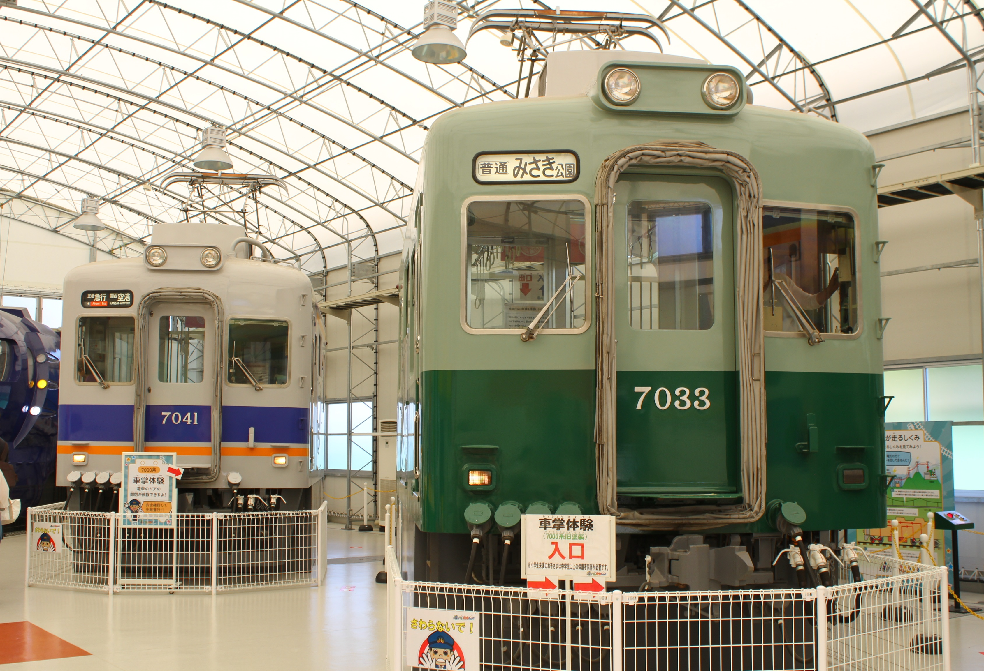 Nankai Electric Railway 7000 Series EMU cars preserved at Misaki Park in Osaka Prefecture, Japan Canon EOS 7D